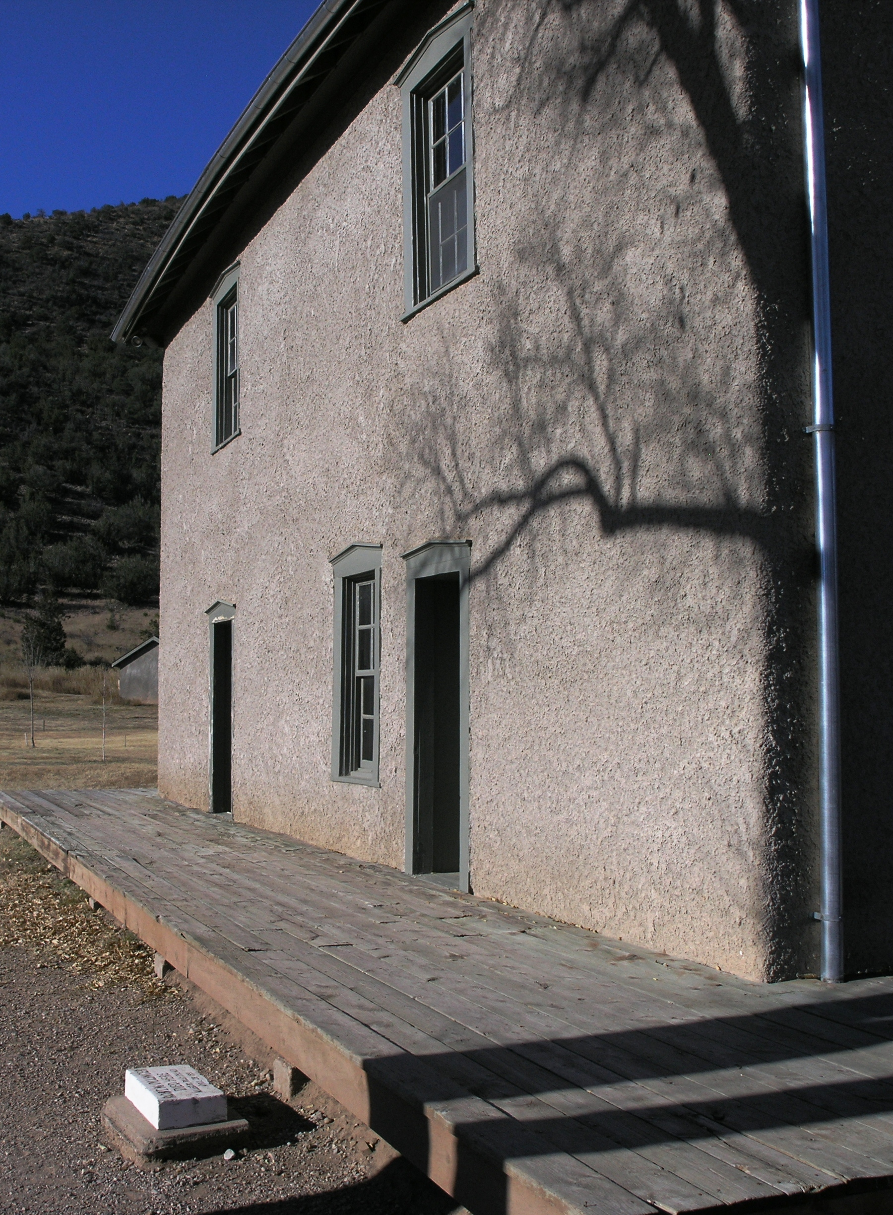 Lincoln, New Mexico